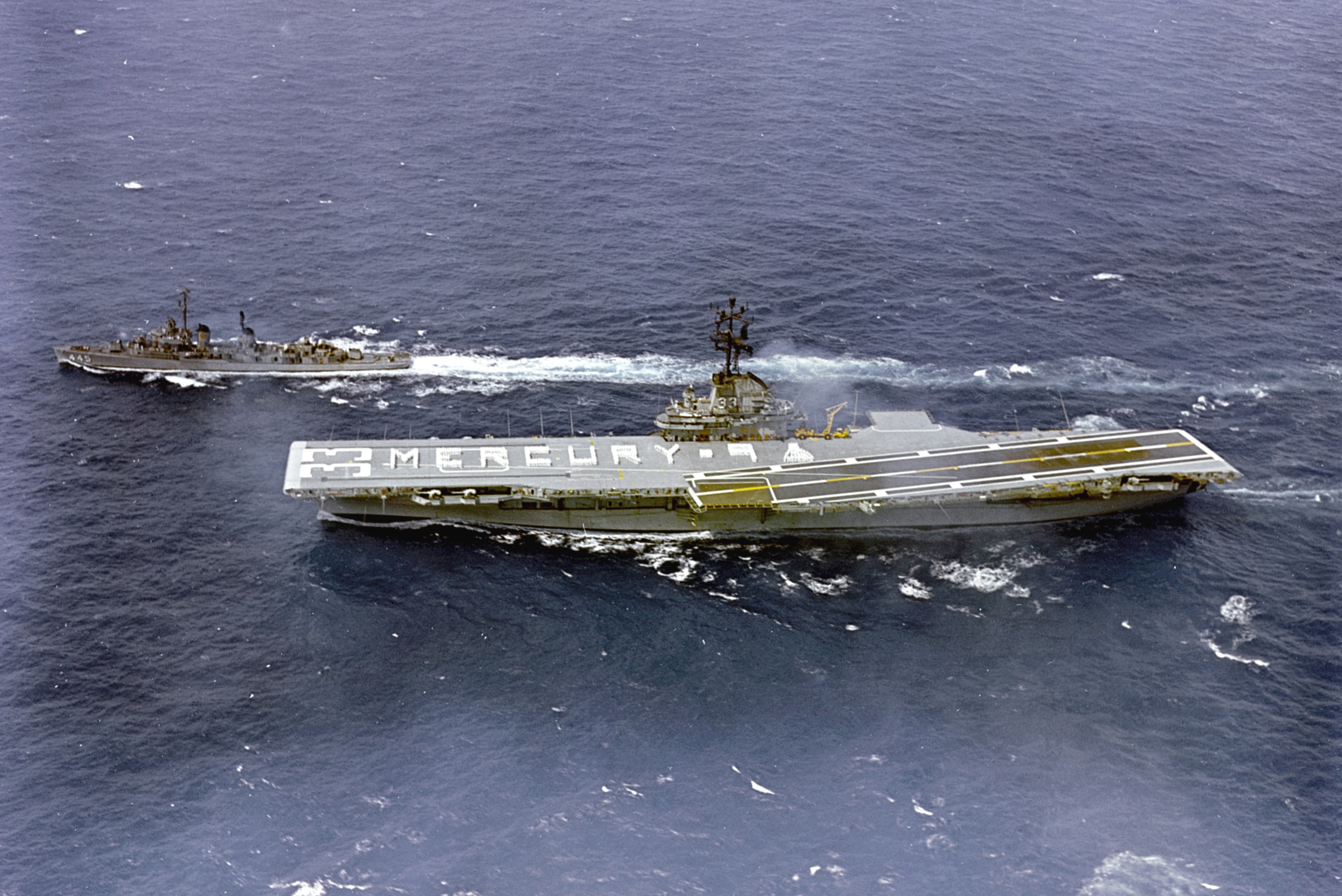 The crew of the U.S. Navy aircraft carrier USS Kearsarge (CVS-33) spells out the words "Mercury 9" on the ship's flight deck while on the way to the recovery area where astronaut Gordon Cooper was expected to splash down in his "Faith 7" Mercury space capsule. The destroyer USS Fletcher (DD-445) is steaming with Kearsarge.